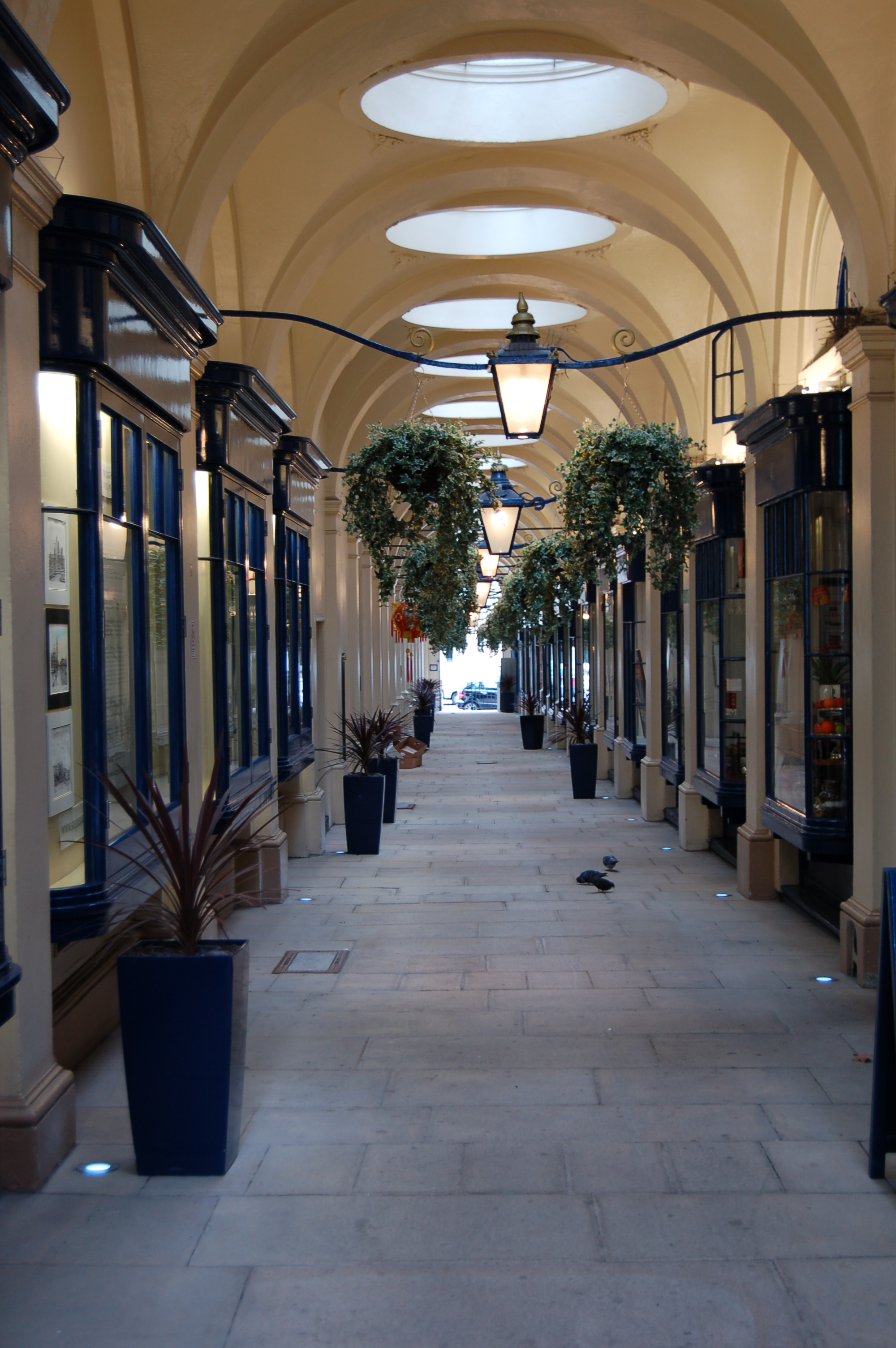 Pls attribute K B Thompson The Royal Opera Arcade, at the rear of Her Majesty's Theatre, was once the principal entrance.